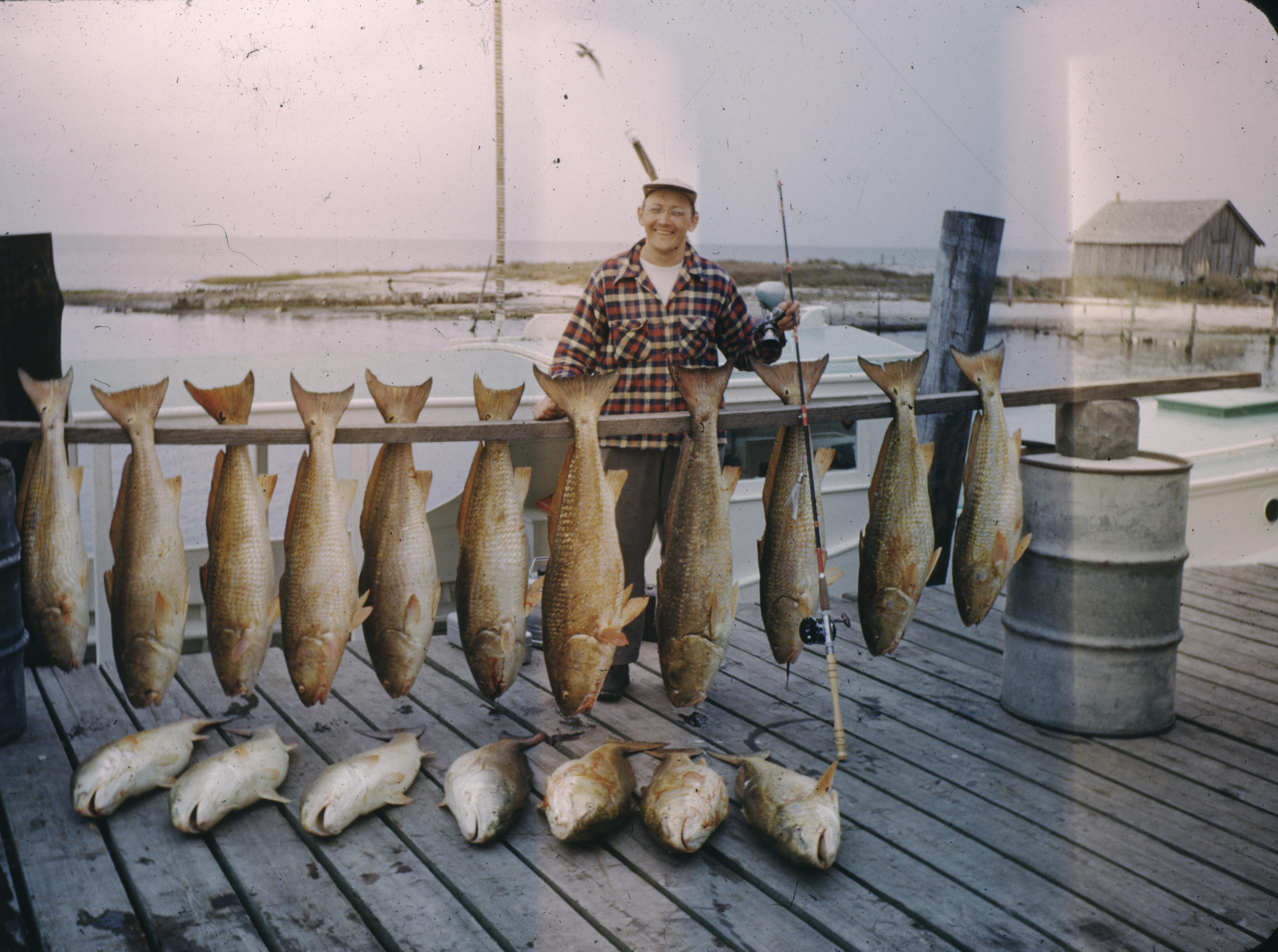 CyberViewX v5.16.55 Model Code=58 F/W Version=1.21 Photography by Victor Albert Grigas (1919-2017)